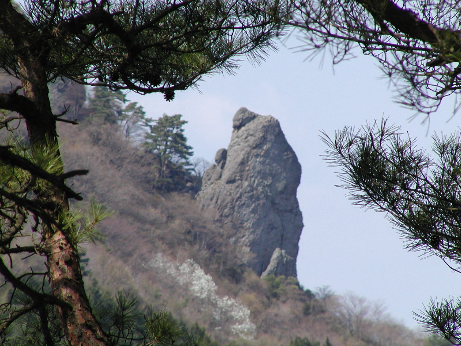 The Bokodaki rock on Mt. Kamuriki (Mt. Obasute)